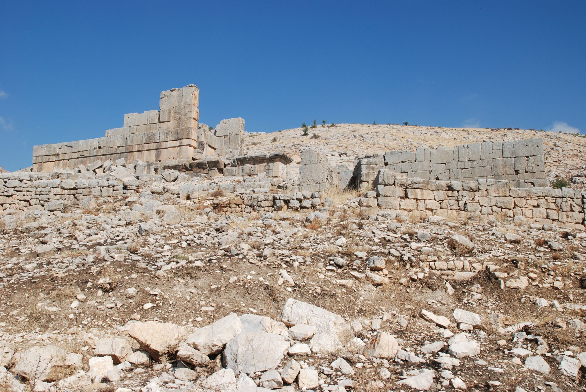 Hosn Niha, above Niha (Zahlé), Lebanon. Roman temple A from south